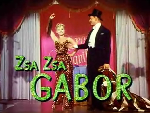 Cropped screenshot of Zsa Zsa Gabor from the trailer for the film Lili